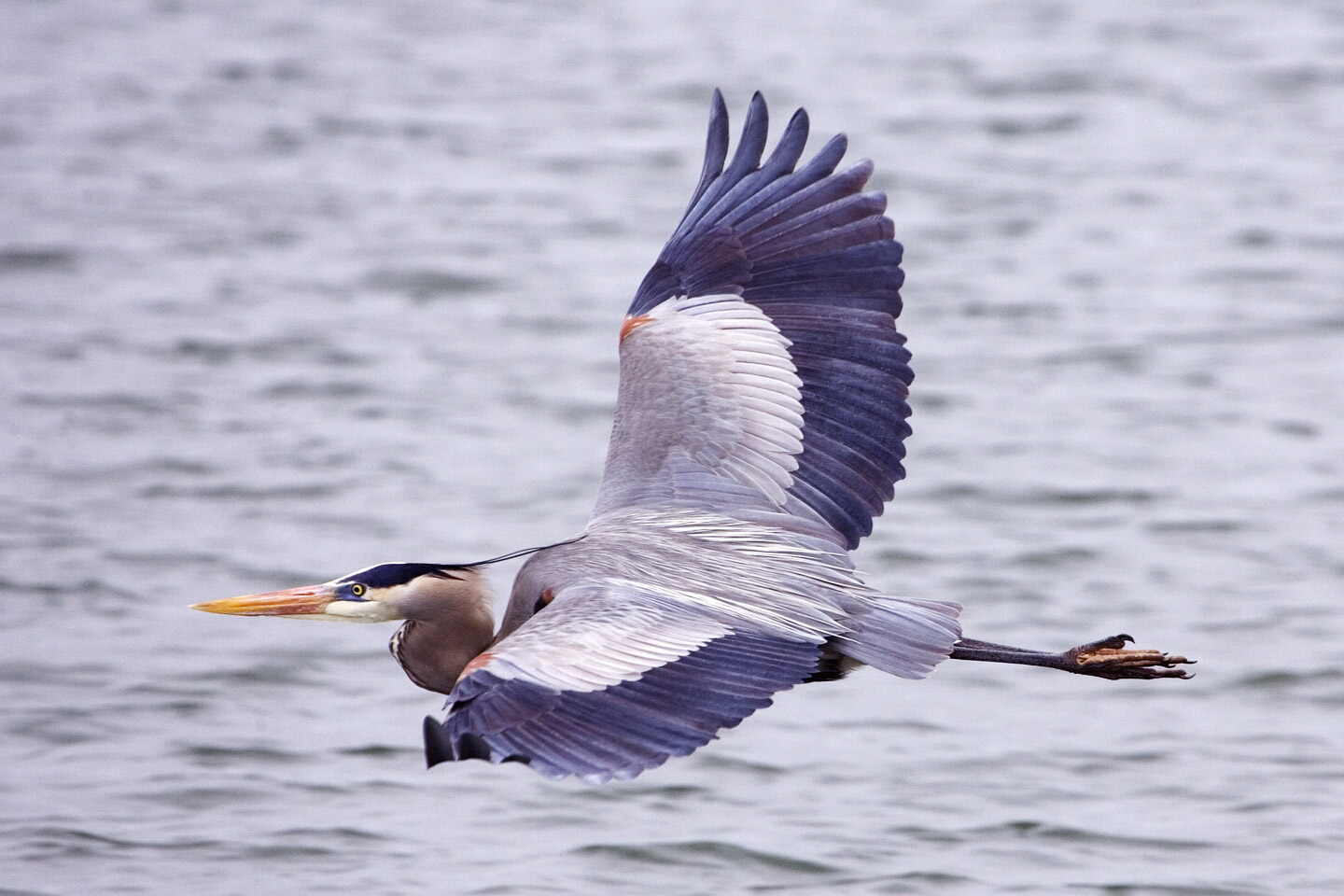 Great Blue Heron, Rockport Beach Park, Rockport, Texas